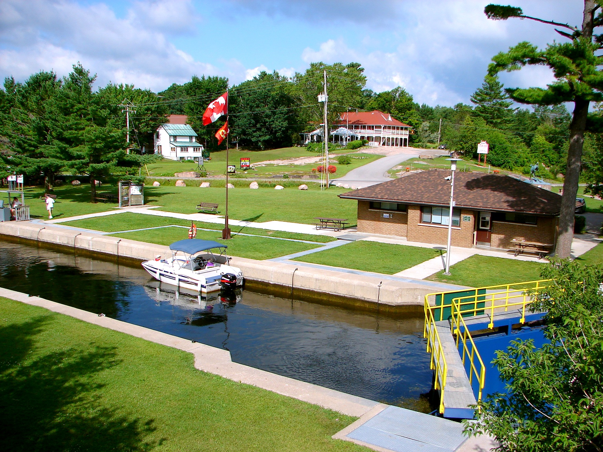 Lock 31 in Buckhorn (Galway-Cavendish and Harvey Township), Ontario, Canada